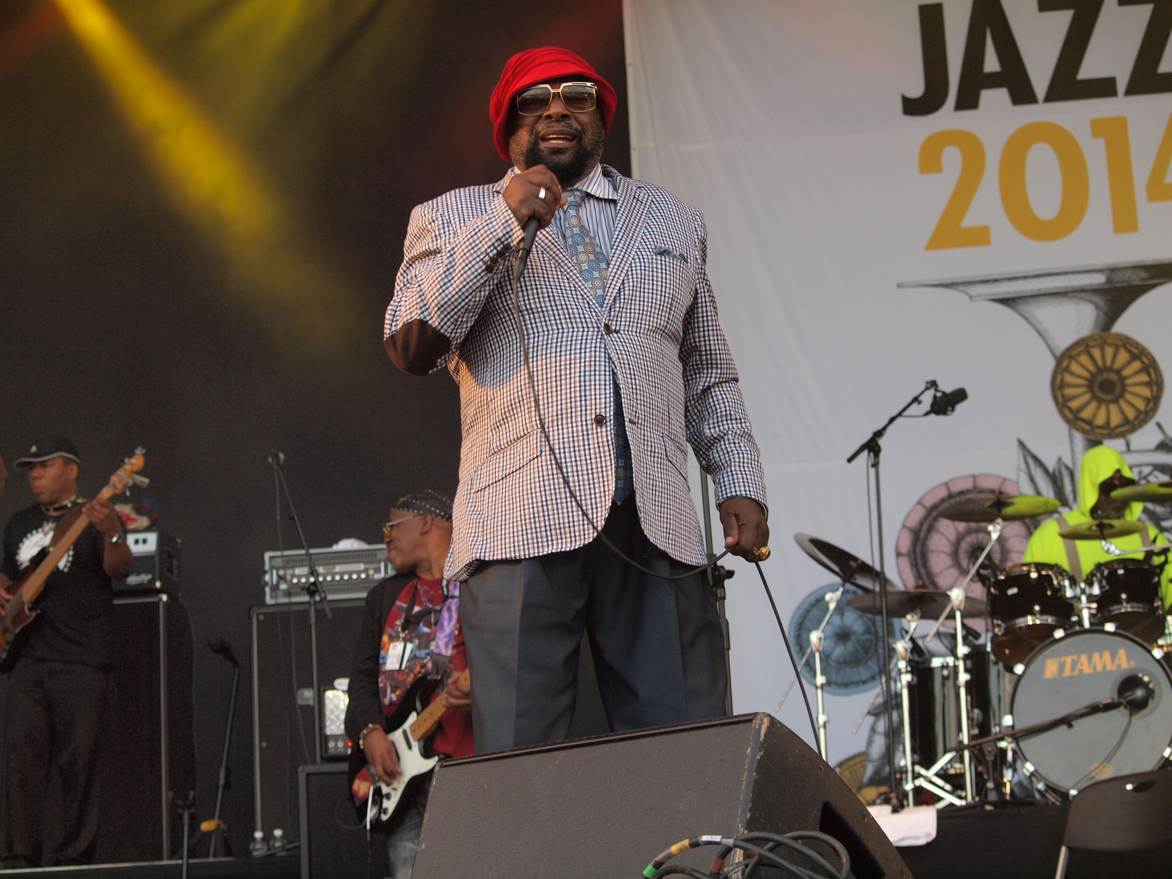 George Clinton (centre, in red hat) performing at Pori Jazz 2014 in Kirjurinluoto, Pori, Satakunta, Finland.